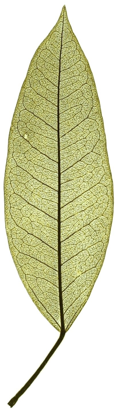 Title: Denkschriften der Kaiserlichen Akademie der Wissenschaften / Mathematisch-Naturwissenschaftliche Classe Year: 1858 (1850s) Authors: Kaiserl. Akademie der Wissenschaften in Wien. Mathematisch-Naturwissenschaftliche Klasse Subjects: Mathematics; Science Publisher: Wien : Aus der Kaiserlich-Königlichen Hof- und Staatsdruckerei Text Appearing Before Image: C. v. Ettingshausen. Die Blattskelete der Apetalen. Taf. XV. Text Appearing After Image: Fig. 1 u. 2. Ficus henghalensis L. Fig. 3. Ficus capensis Thunbg. Fig. 4—6. Ficus pumila L. Fig. 7. Ficus sp. Ostind. Fig. 8. Ficus americana Aubl. Fig. 9 u. 10. Ficus cestrifolia Schott. Denkschriften der mathem.-naturw. Cl. XV. Bd. 1858. Naturselbstdruck aus der k. k. Hoff- und Staatsdruckerei